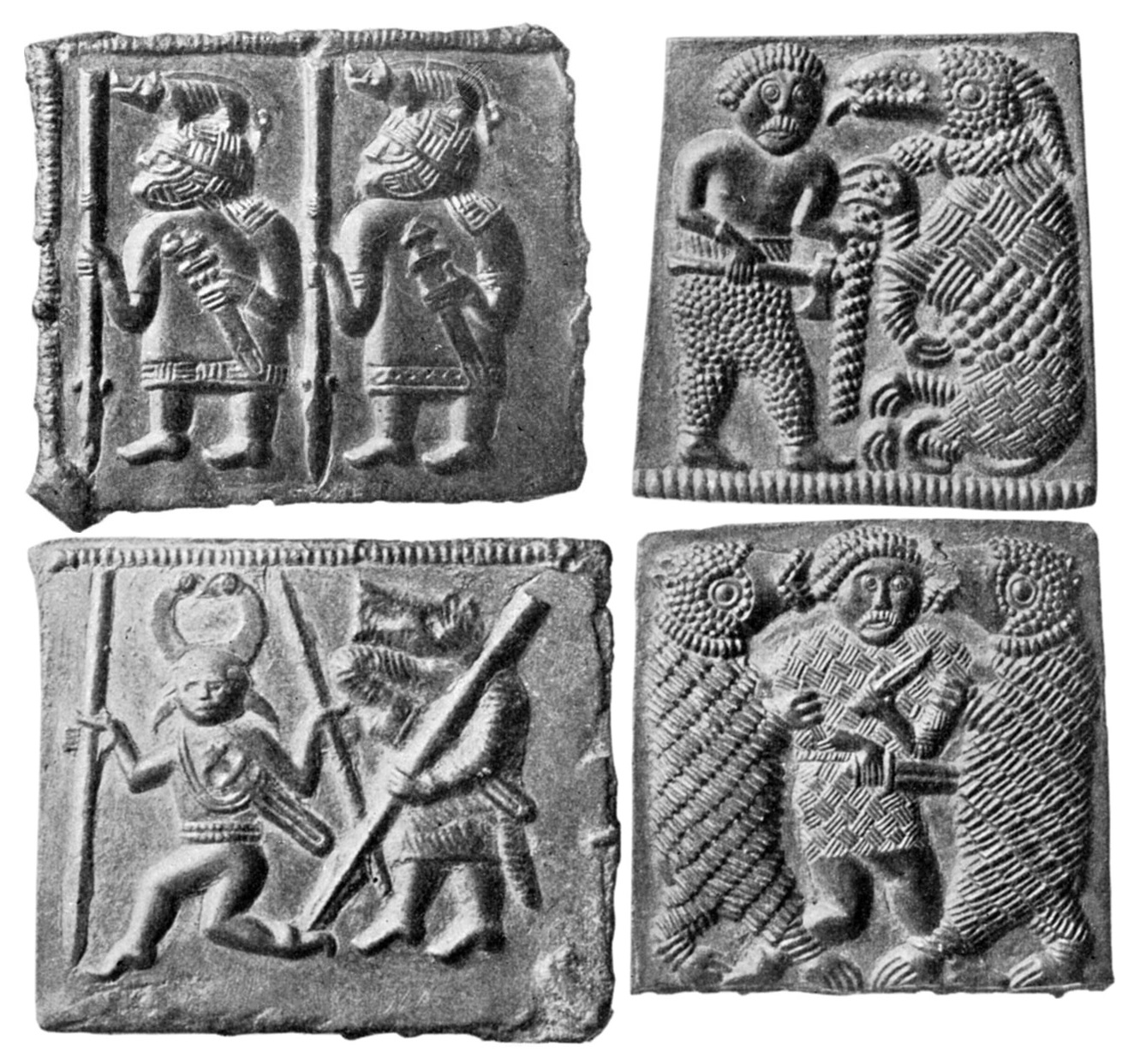 The four Torslunda plates